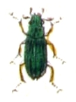 Hydrochus elongatus, from Calwer's Käferbuch, Table 8, Picture 26. Taxonomy was updated to 2008, using mostly the sites Fauna Europaea and BioLib. Please contact Sarefo if the determination is wrong!